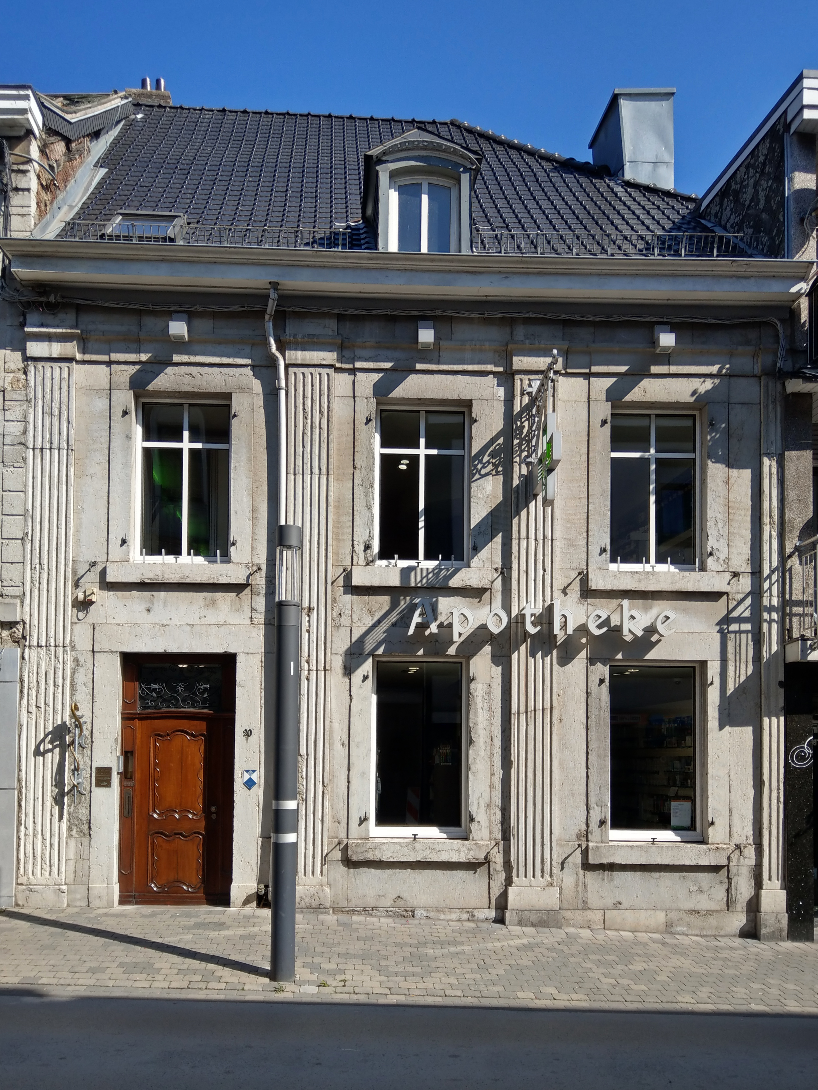 Explanations and history, see category.